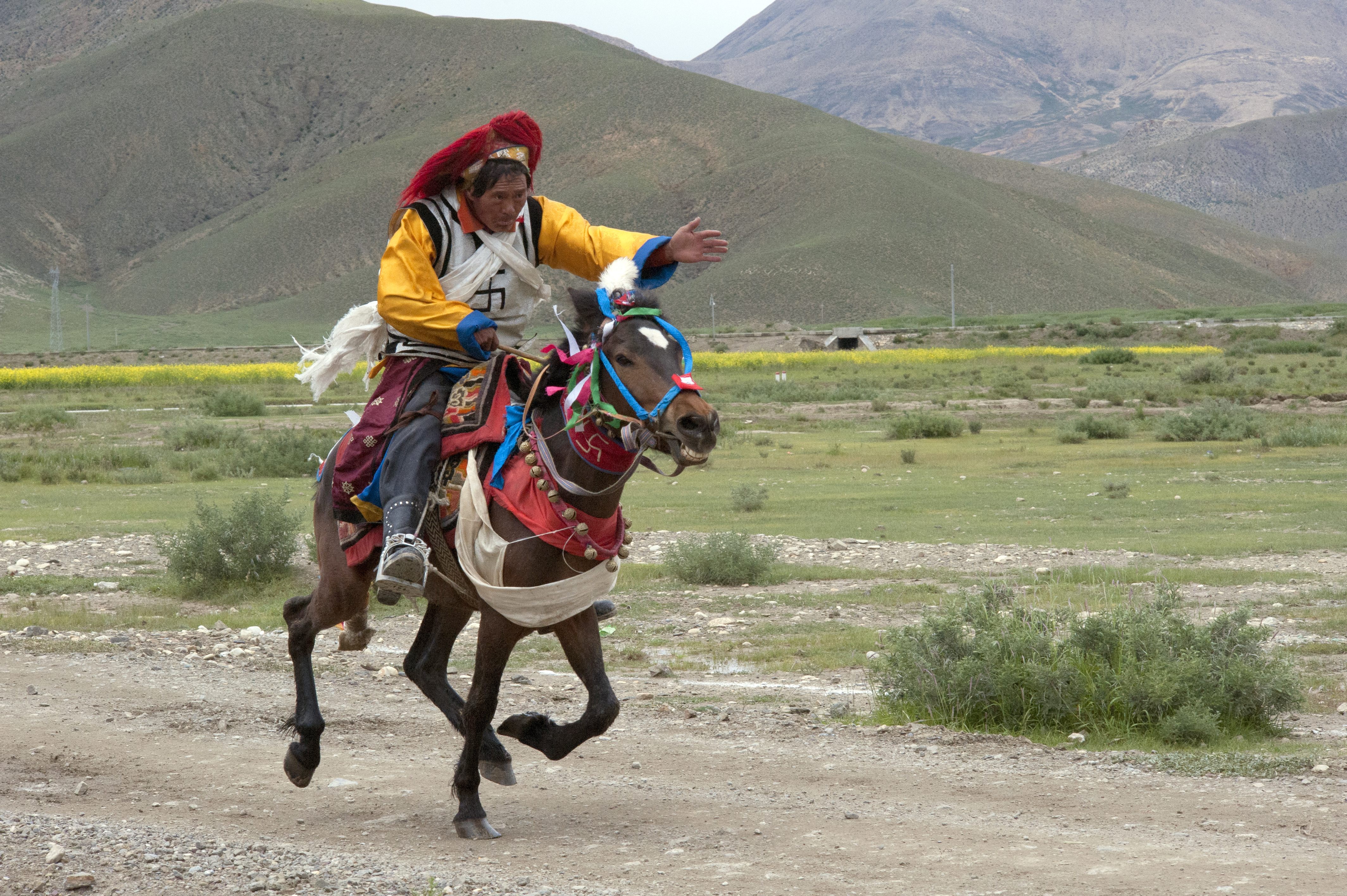 Nomad horse riding, Zhanzong, Tibet, China.